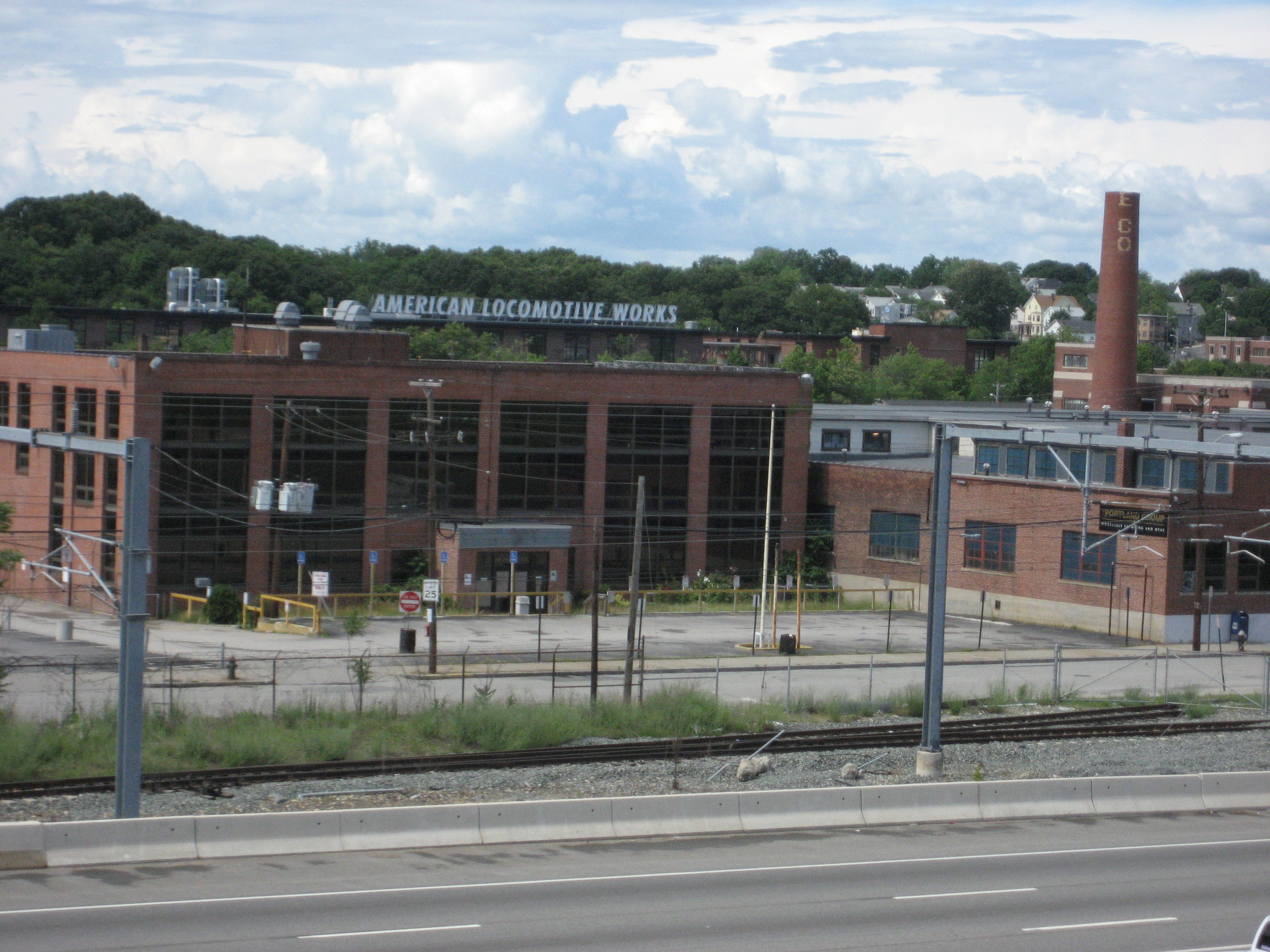 View of "American Locomotive Works" from Federal Hill, Providence, Rhode Island.